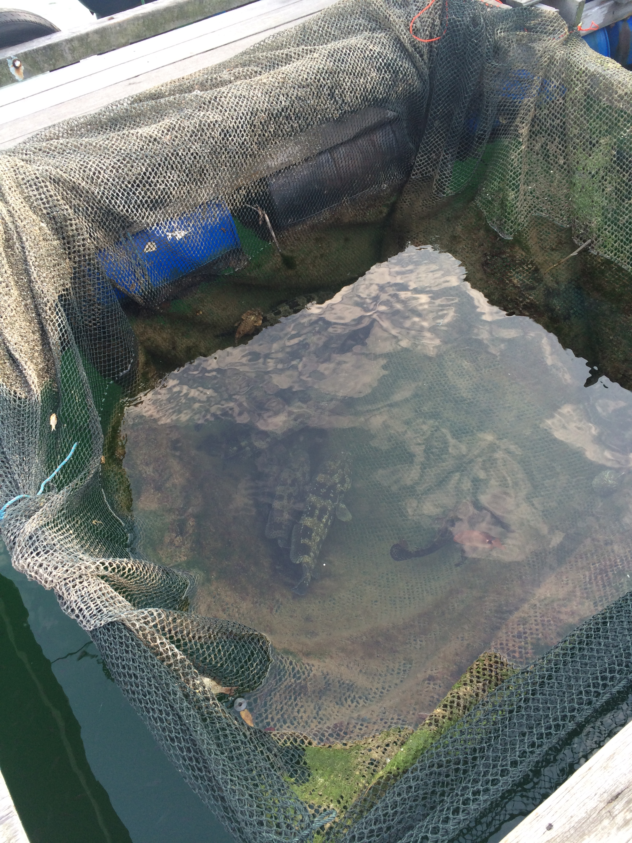 Nets in deck hold live fish at Changi Village, Singapore.